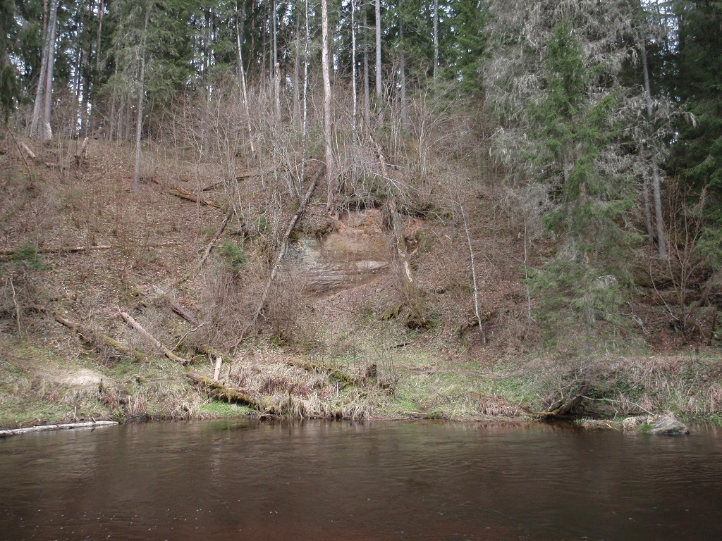 Soeoos